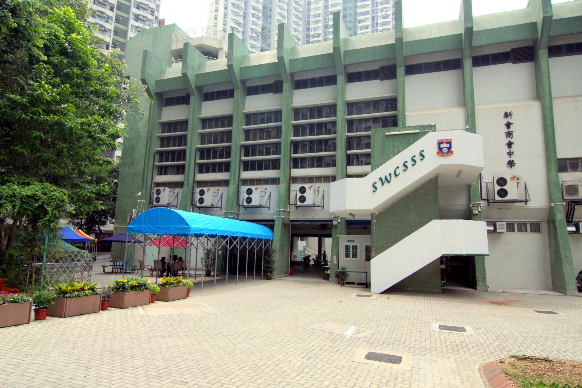 San Wui Commercial Society Secondary School in Tuen Mun, Hong Kong.